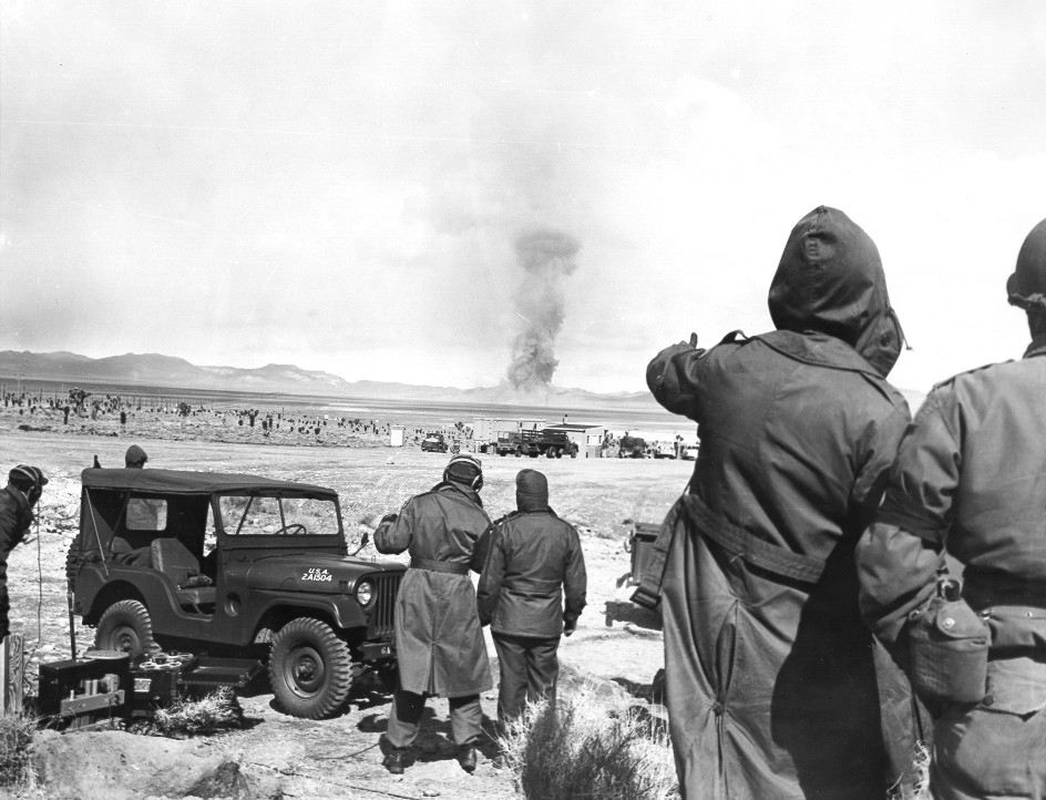 TEAPOT - ATOMS AWAY - U.S. Army soldiers from Camp Desert Rock, NV, point to mushroom of first atomic device set off in 1955 series at the Atomic Energy Commission's Nevada Test Site.